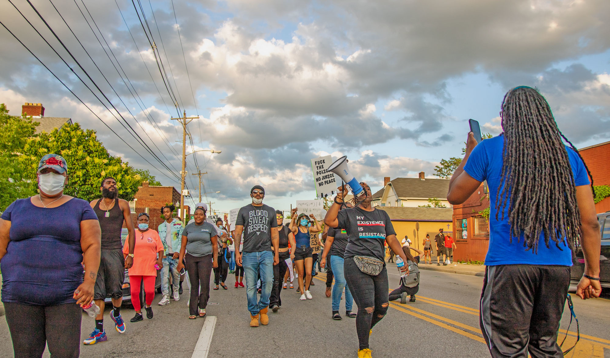 George Floyd protest, 2020-05-28, Columbus, Ohio.